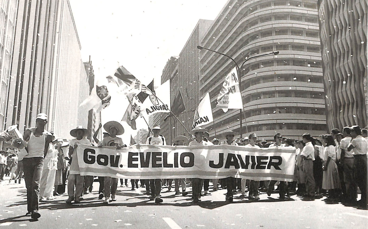 Men gathered in the streets days after Javier's death that contributed to the spark of the People Power